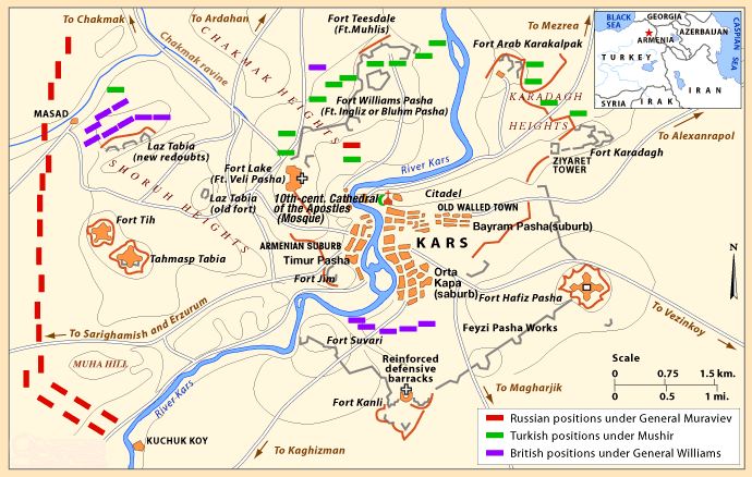 The siege план of Kars bя Russian forces, 1855